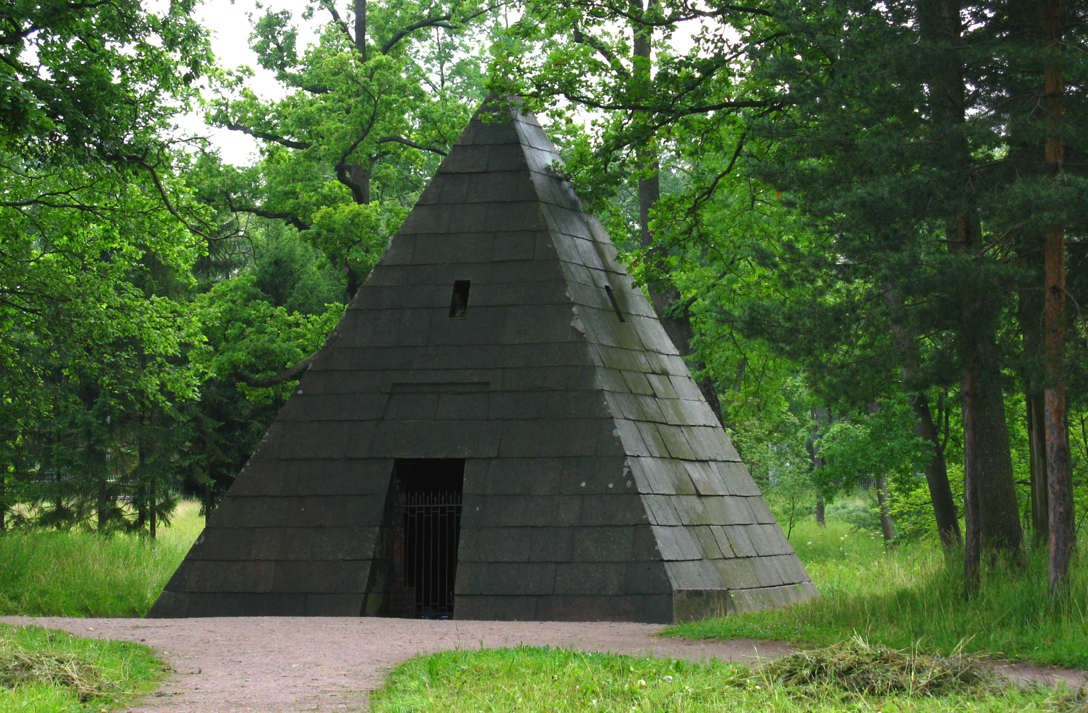 Pushkin - Tsarskoye Selo - Pyramid. Grave of three favorite dogs of empress Catherine II, including Zémire. Build in 1782—83. Copy of Pyramid of Caius Cestius (Rome).